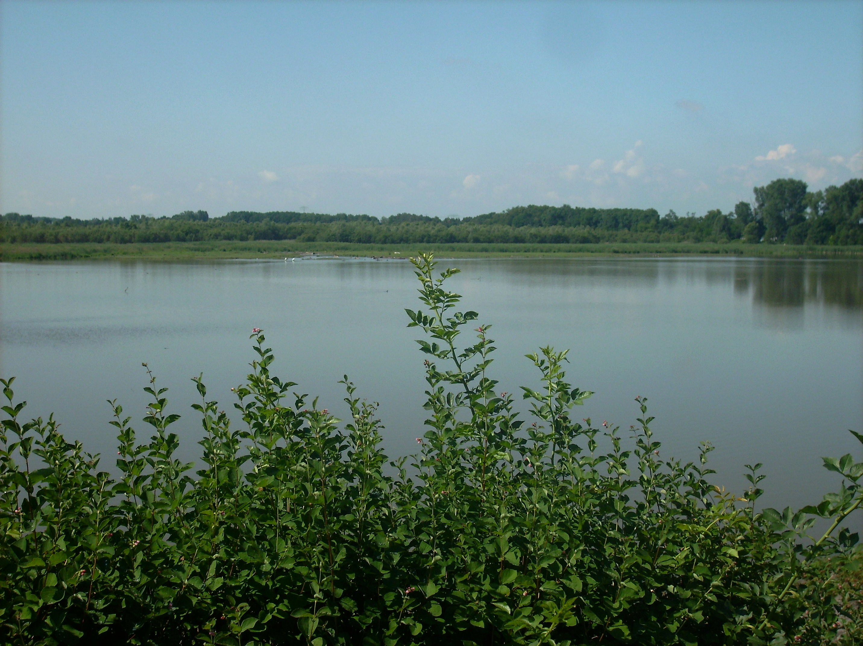 At the Windischleuba Reservoir near Fockendorf (district of Altenburger Land, Thuringia)